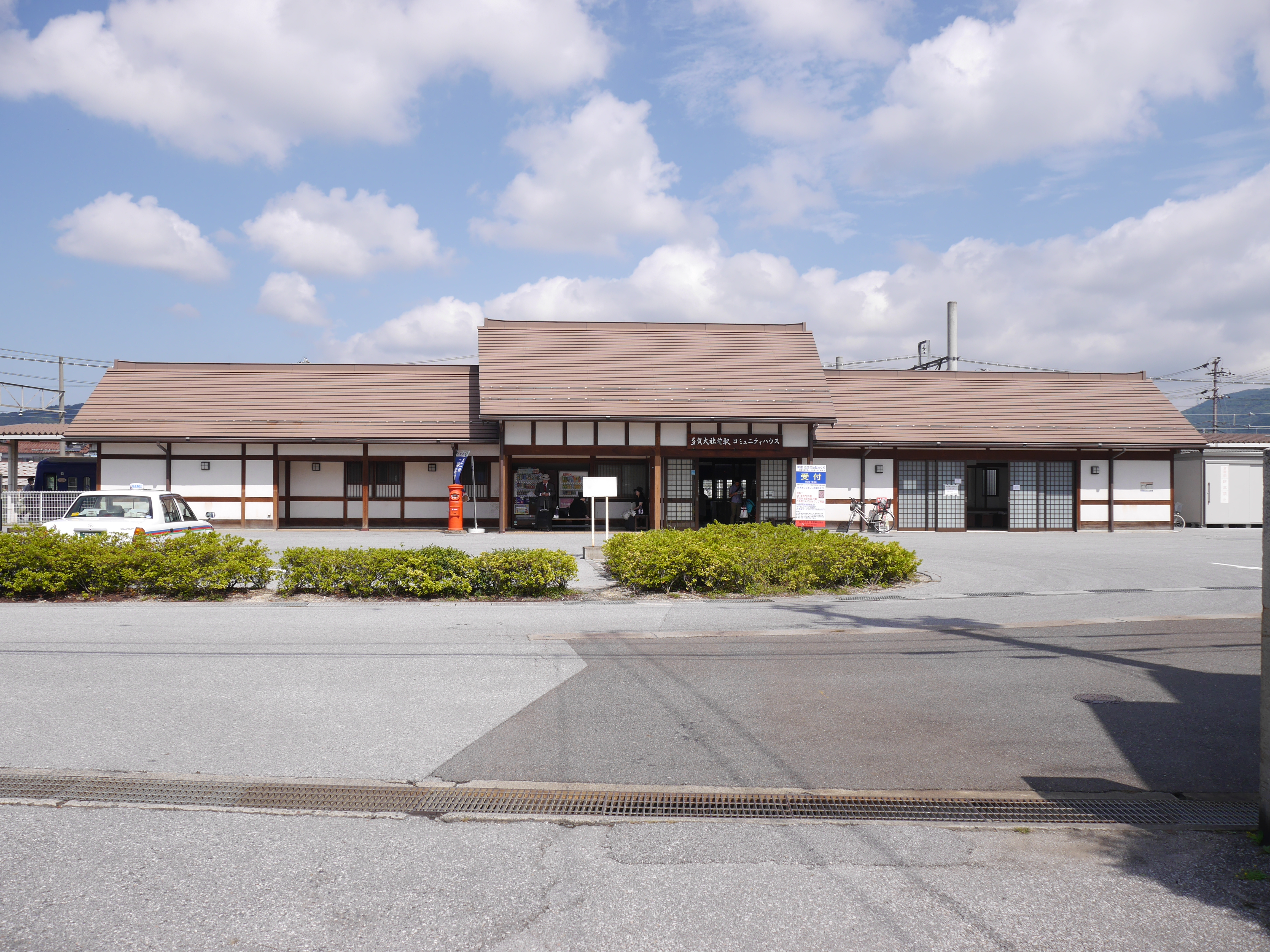 Taga Taisha station overview